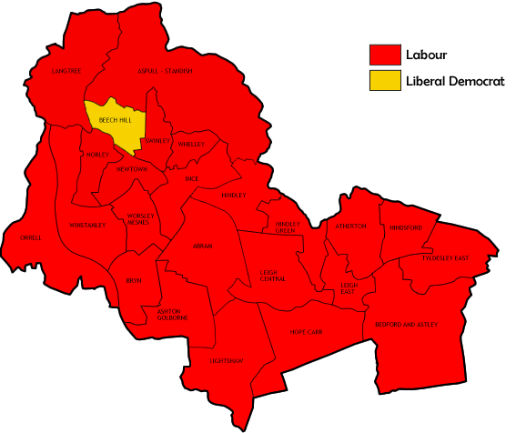 Wigan ward map with political colouring.